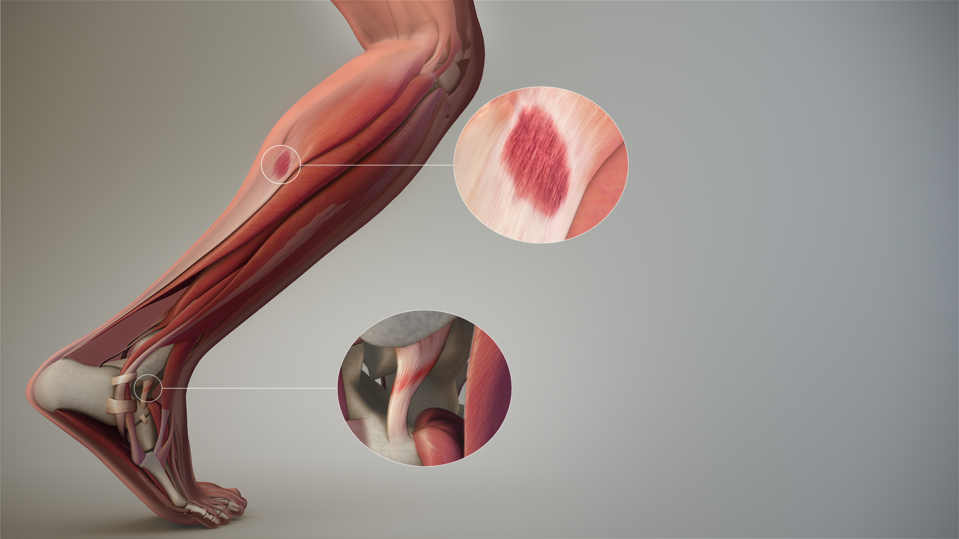 A 3D medical animation still shot illustrating a sprain